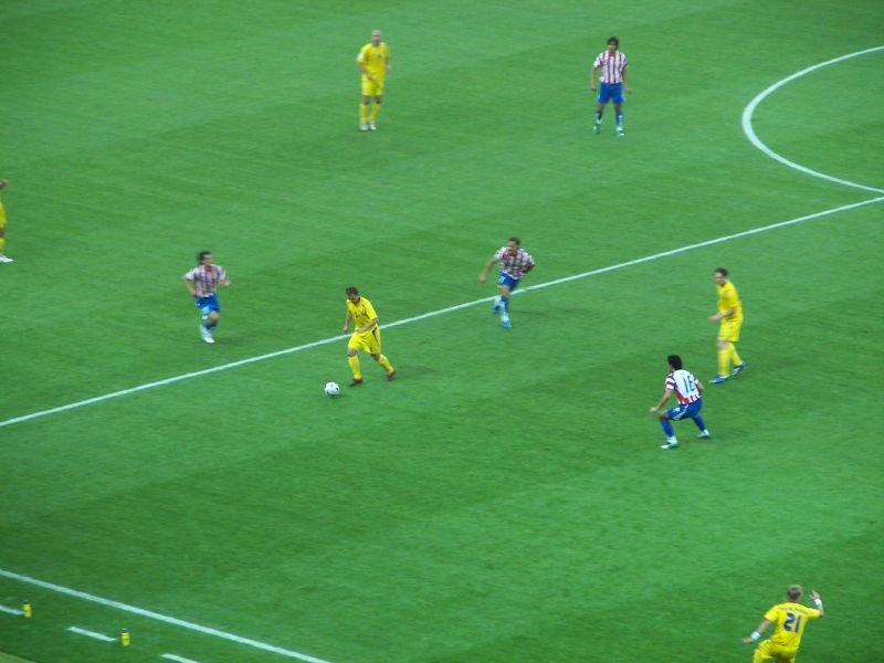 Match Sweden-Paraguay in the FIFA World Cup Germany 2006WM 2006